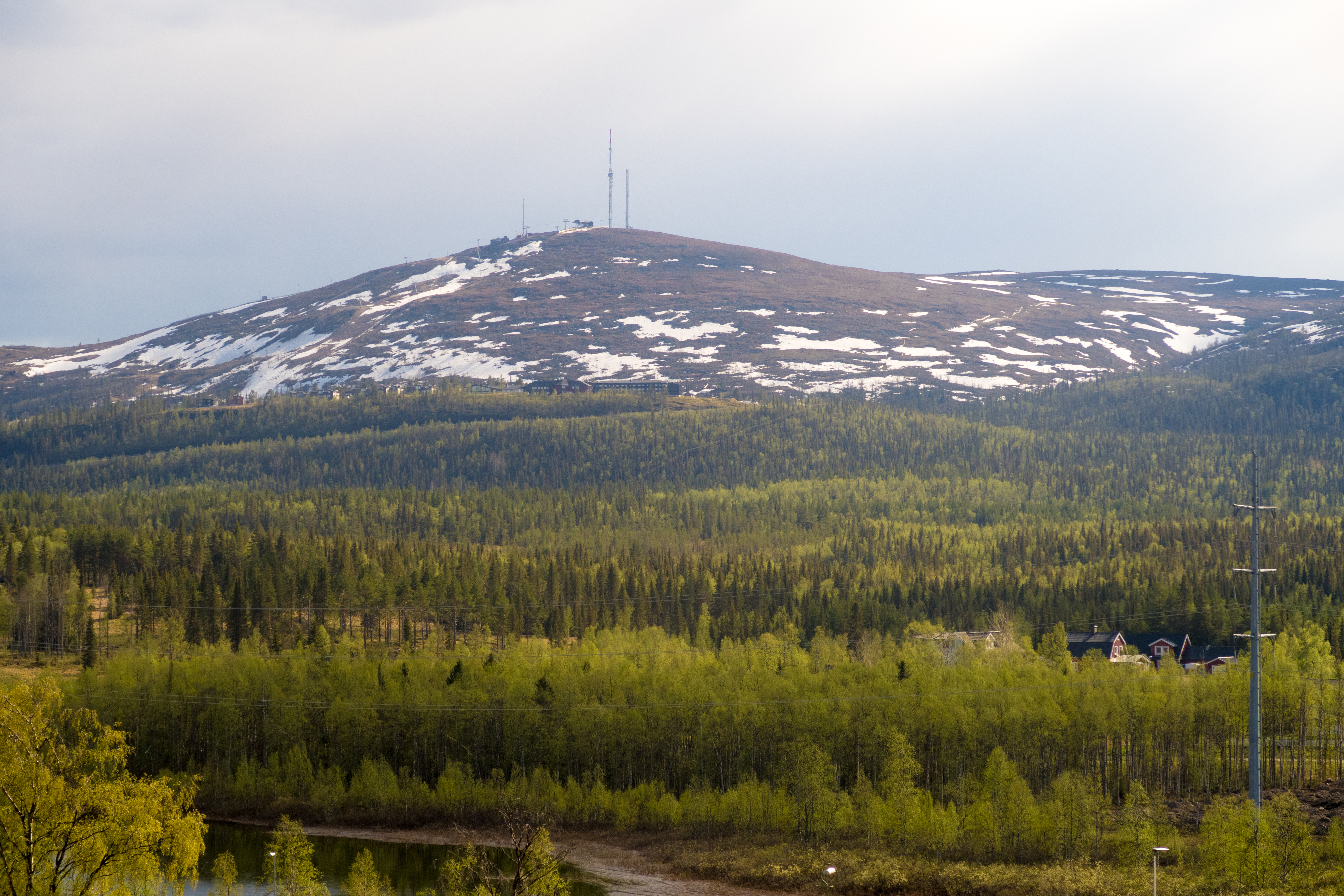 Dundret, view from the rooftop of Quality Hotel Lapland, Gällivare, 2017-06-10